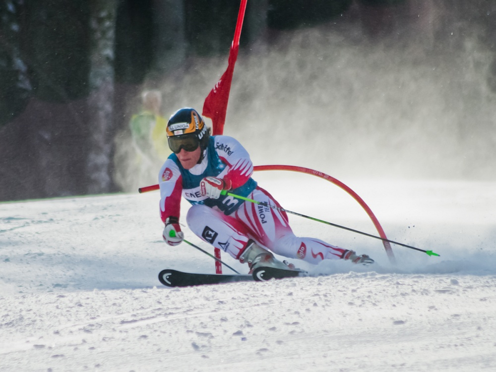 Austrian alpine skier Johannes Kröll in the first run of the FIS Giant Slalom in Hinterstoder, Austria, on 8 March 2010.